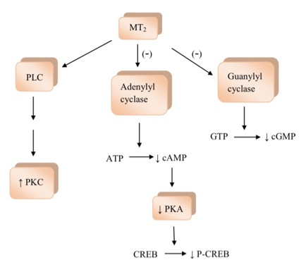 MT2 melatonin receptor signaling